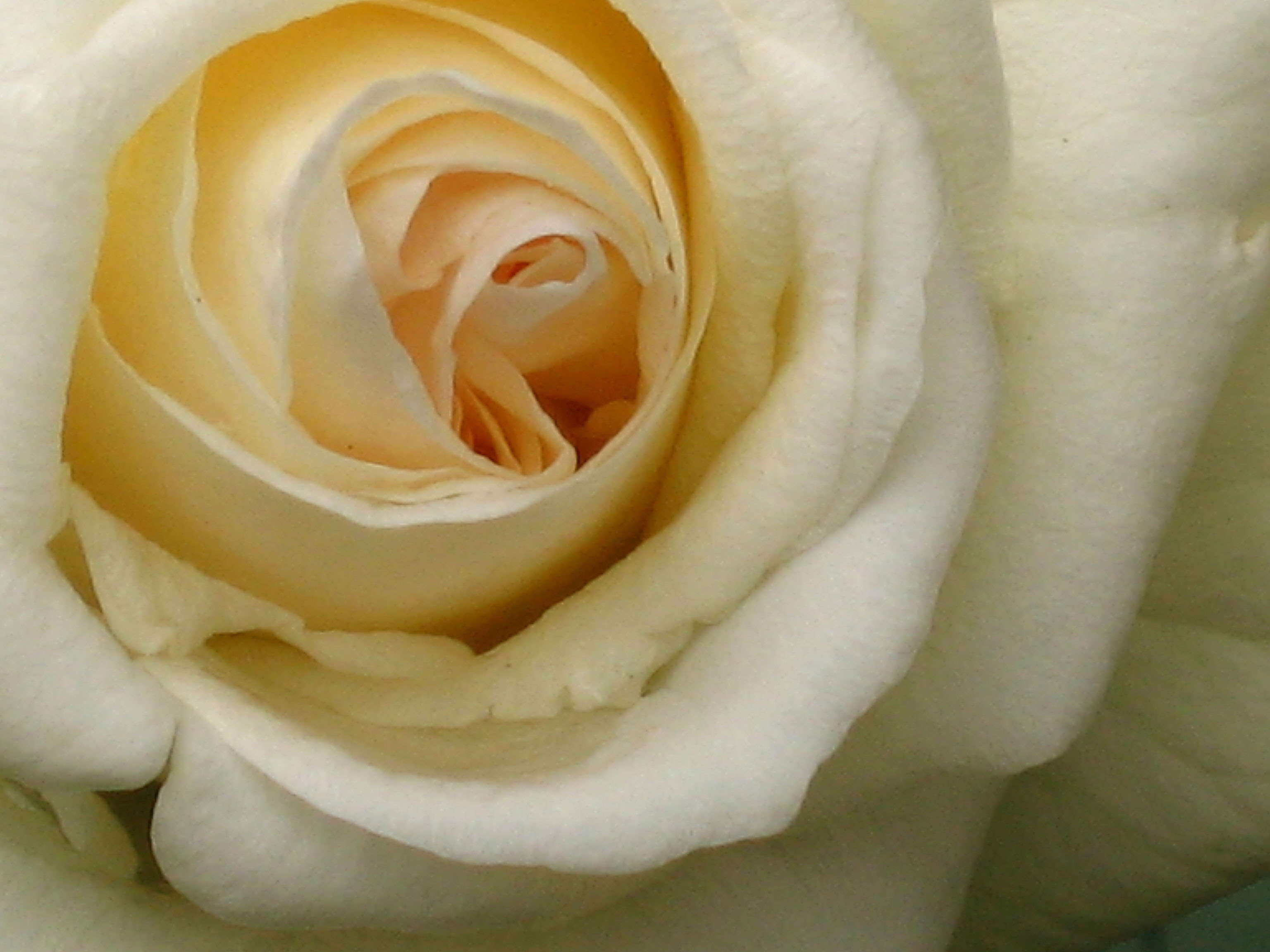 Cream Rose